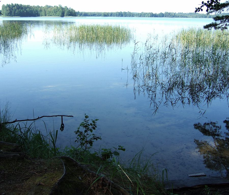 Lake Asavas (Lithuania)